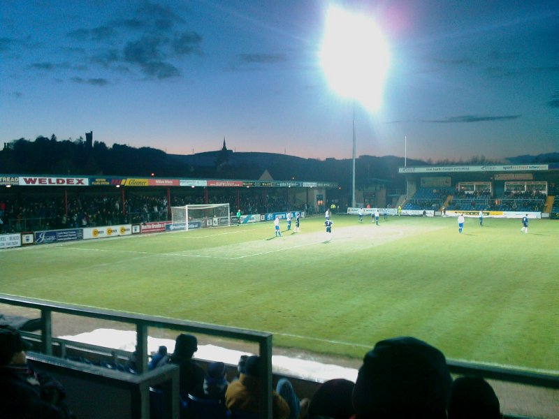 Victoria Park, home stadium of Ross County F.C., Dingwall, Scotland